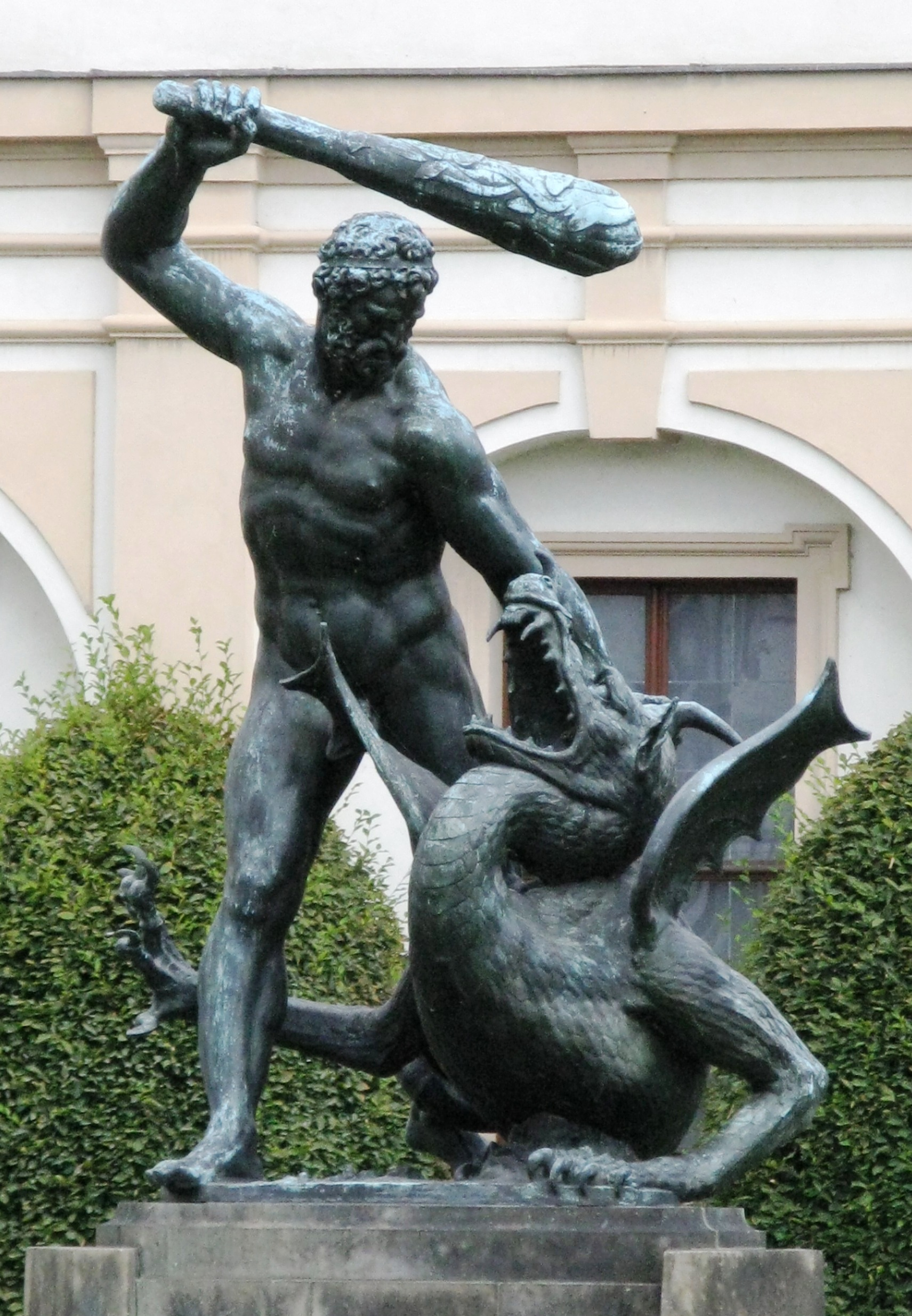 Adriaen de Vries: Hercules fights with the dragon (Waldstein Palace, Prague)